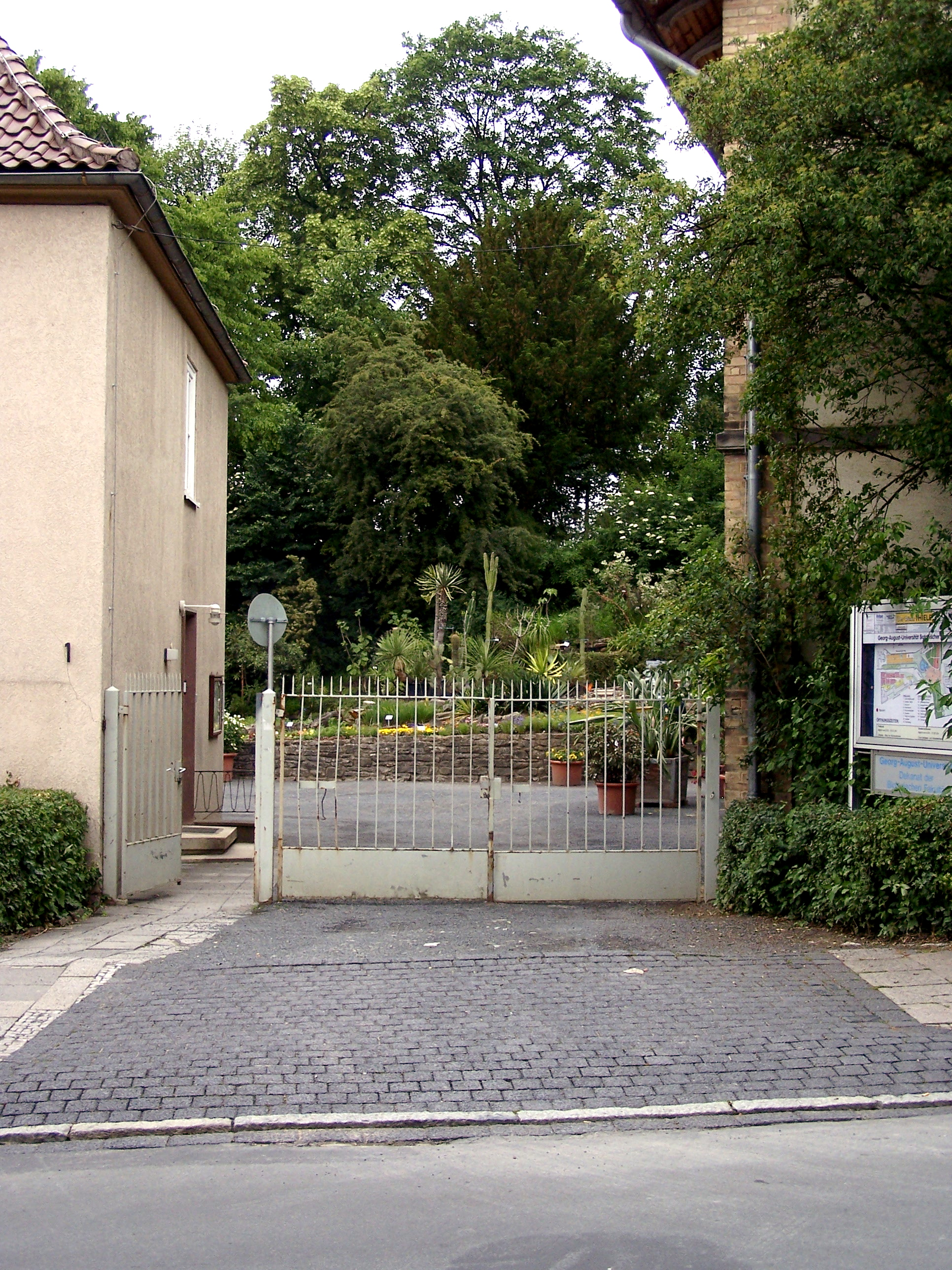 Old Botanical Garden of Göttingen University